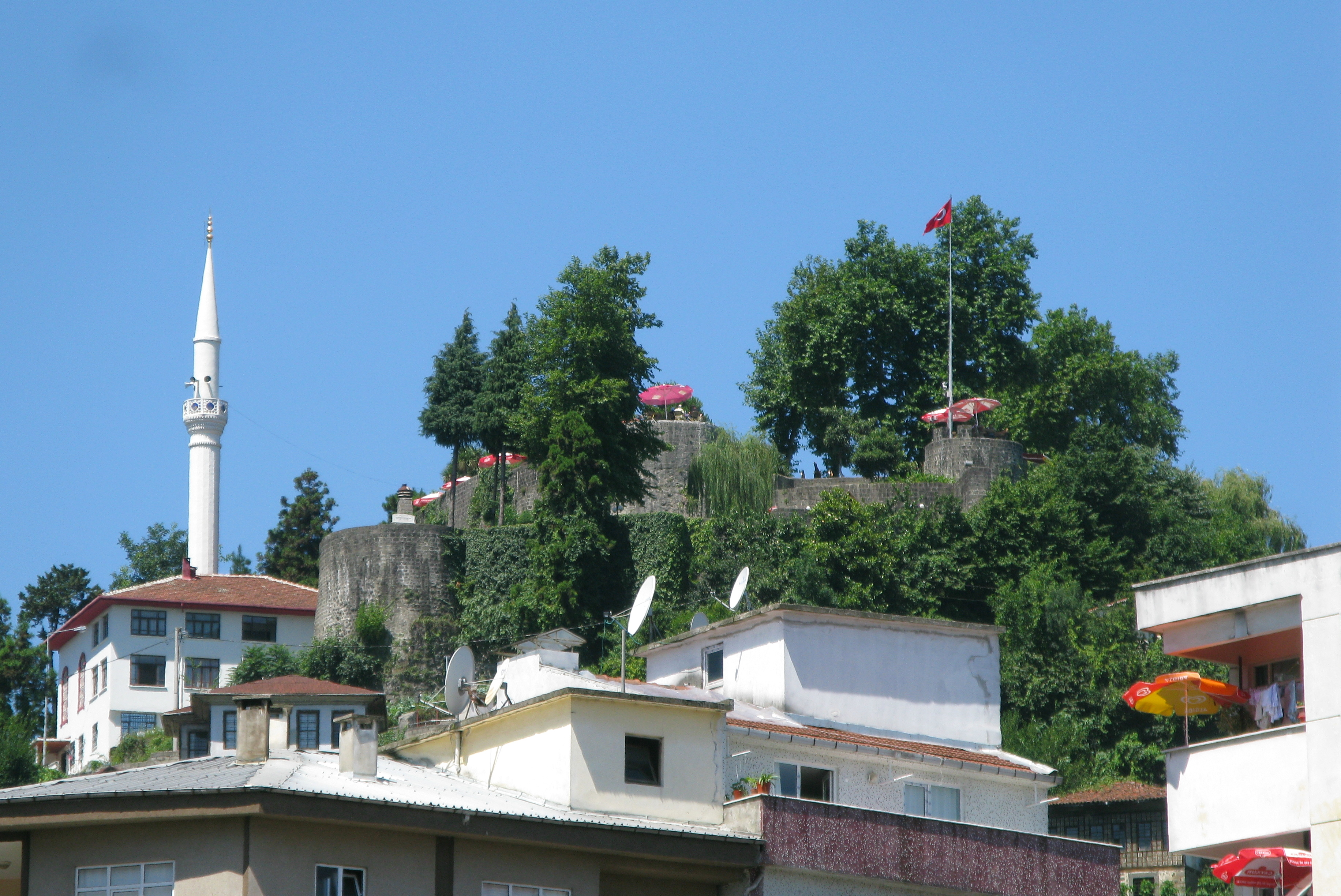 Castle of Rize from the path leading to it in Rize, Turkey